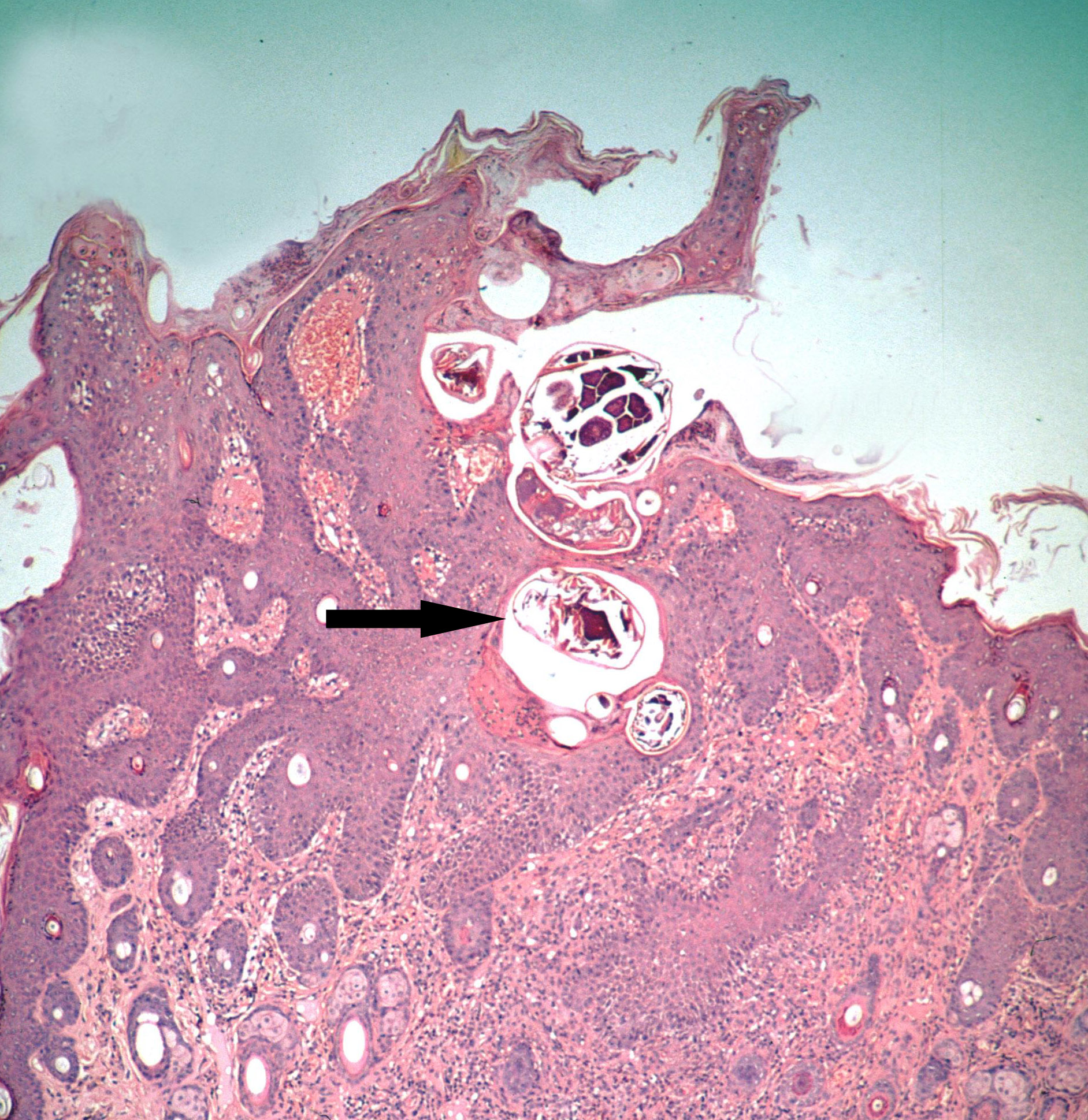 Sarcoptic mites burrowing within epidermis of host.